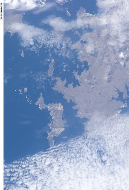 Satellite image of Speedwell Island in the Falkland Islands